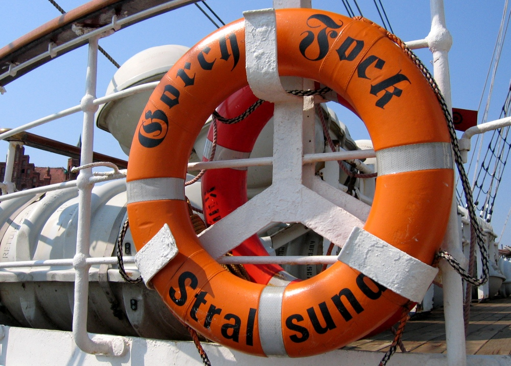 Gorch Fock (1933) Lifebelt